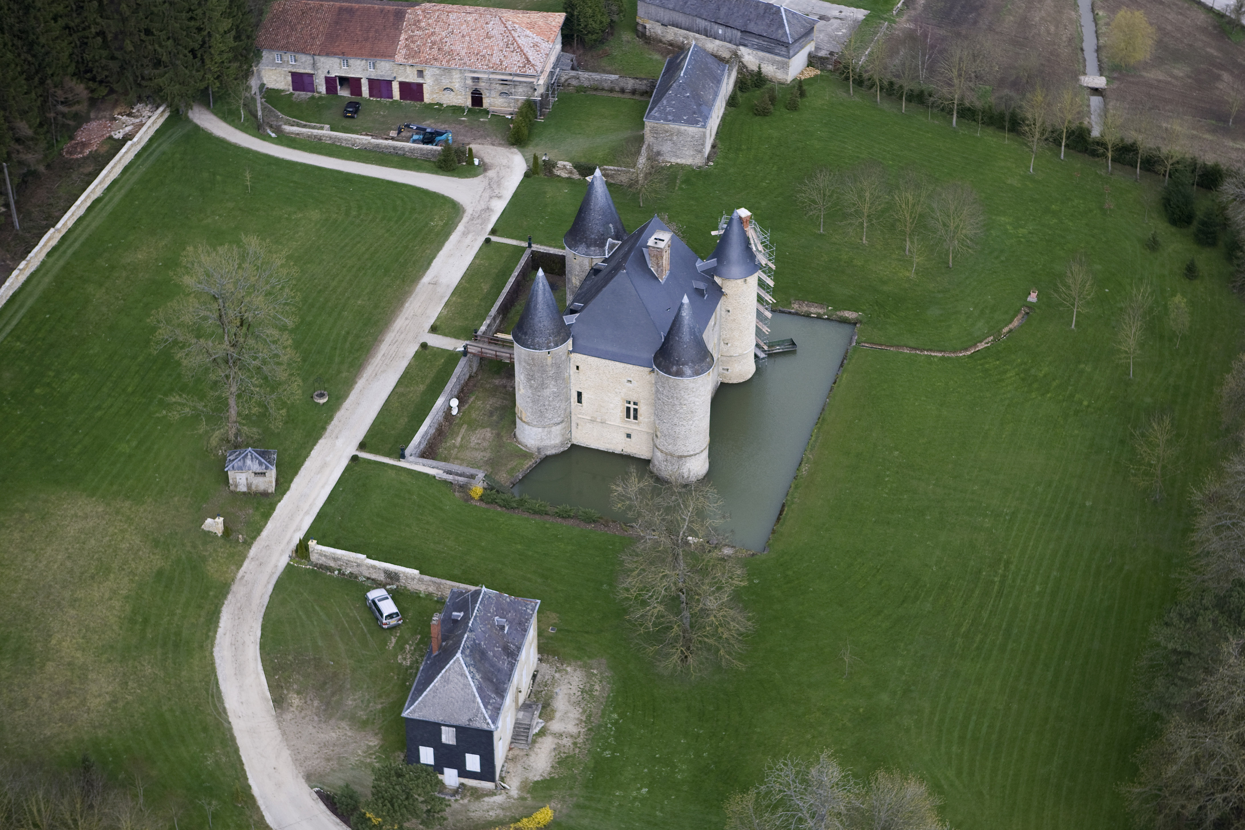 South view of Landreville Castle and his two Pavillons.